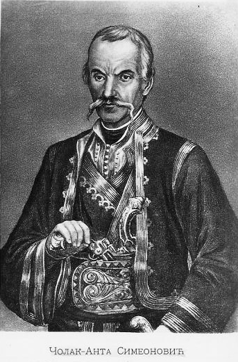 portrait of the Duke Čolak Anta Simeonović (1777– 1853); see Čolak-Antić family), a Serbian noble and military leader